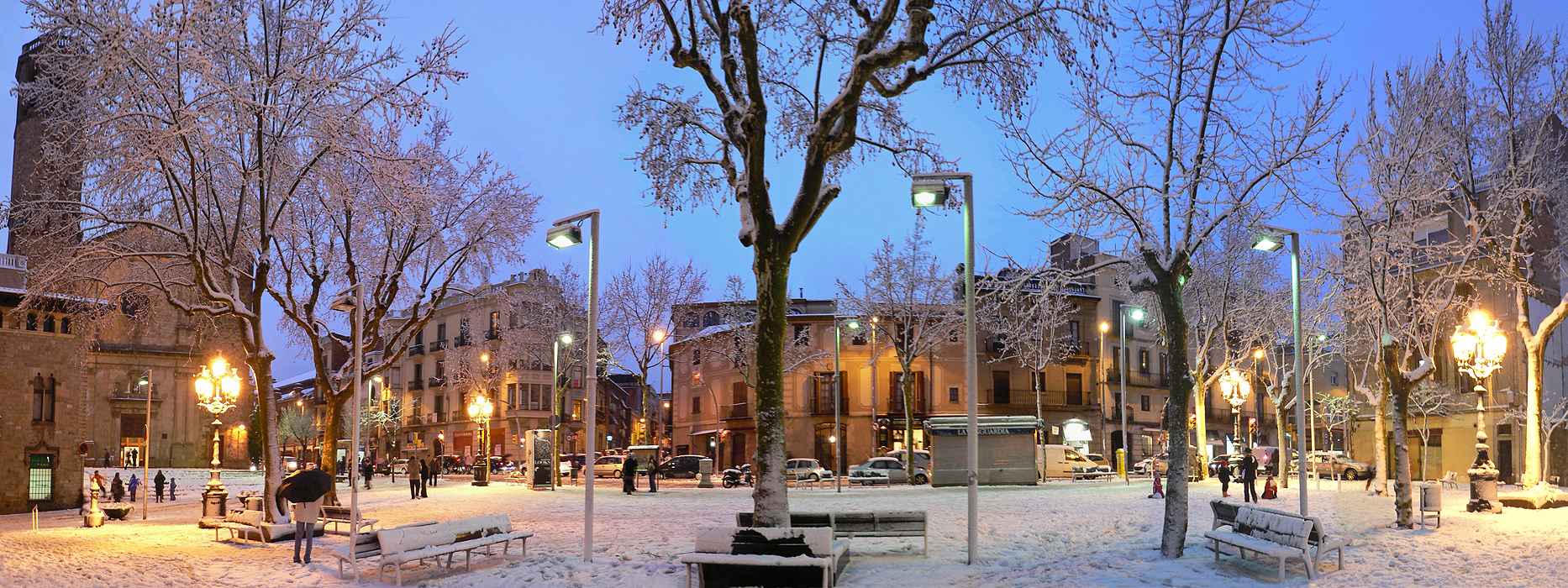 Barcelona. Plaça de Sarrià under the snow.